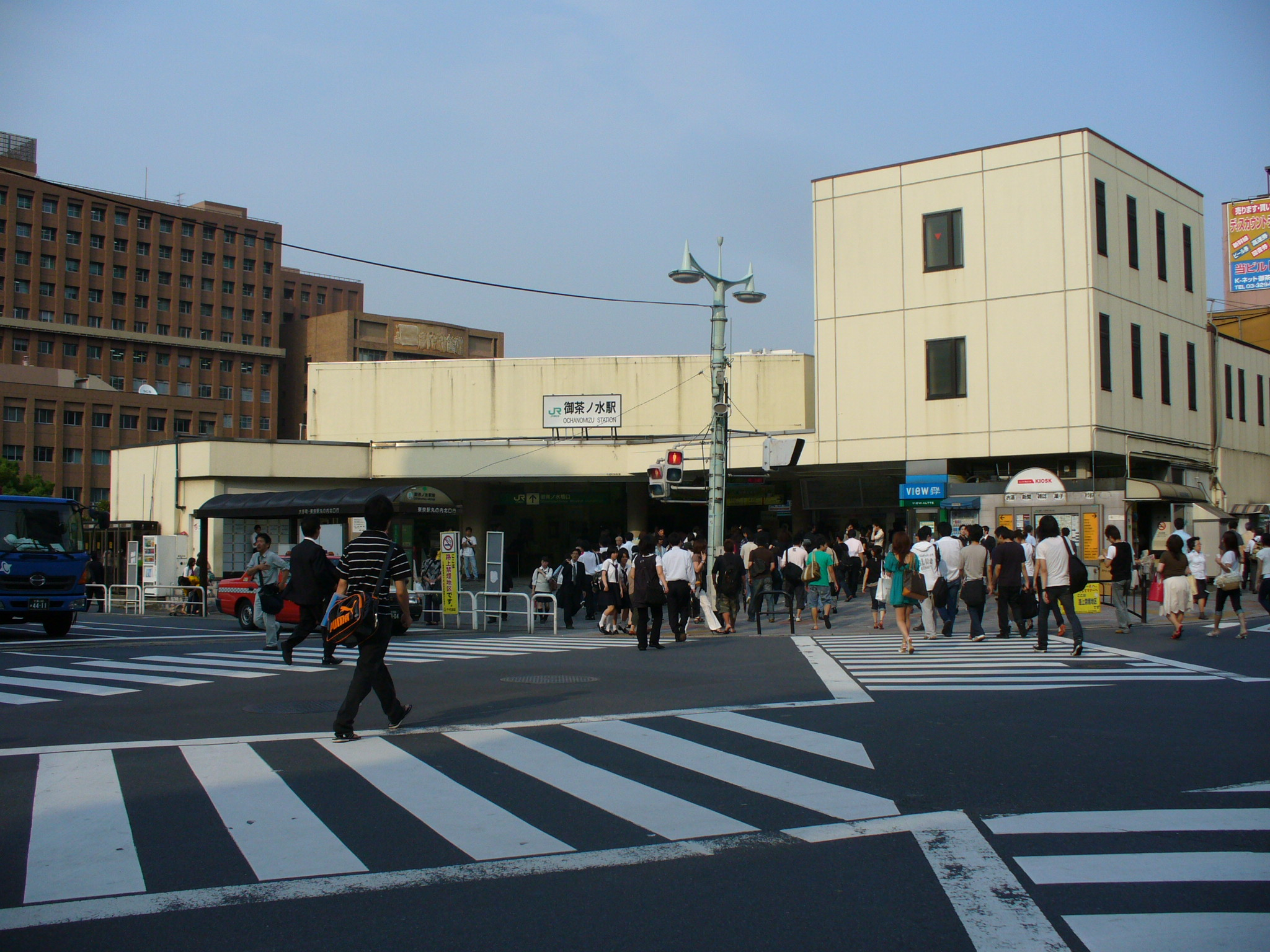 Ochanomizubashi Exit of Ochanomizu Station